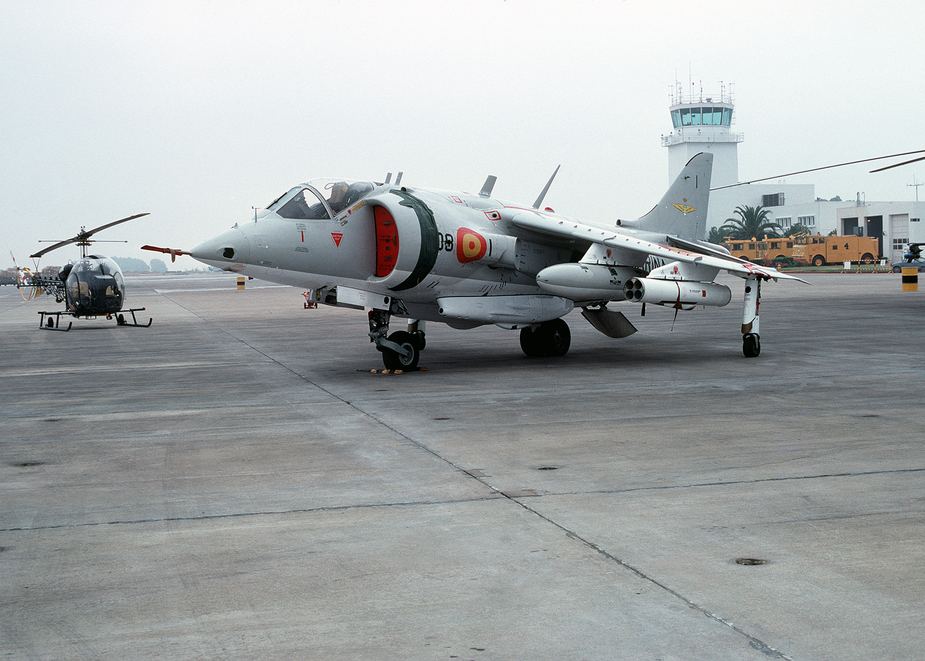 Left front view of a Spanish navy AV-8S Matador aircraft